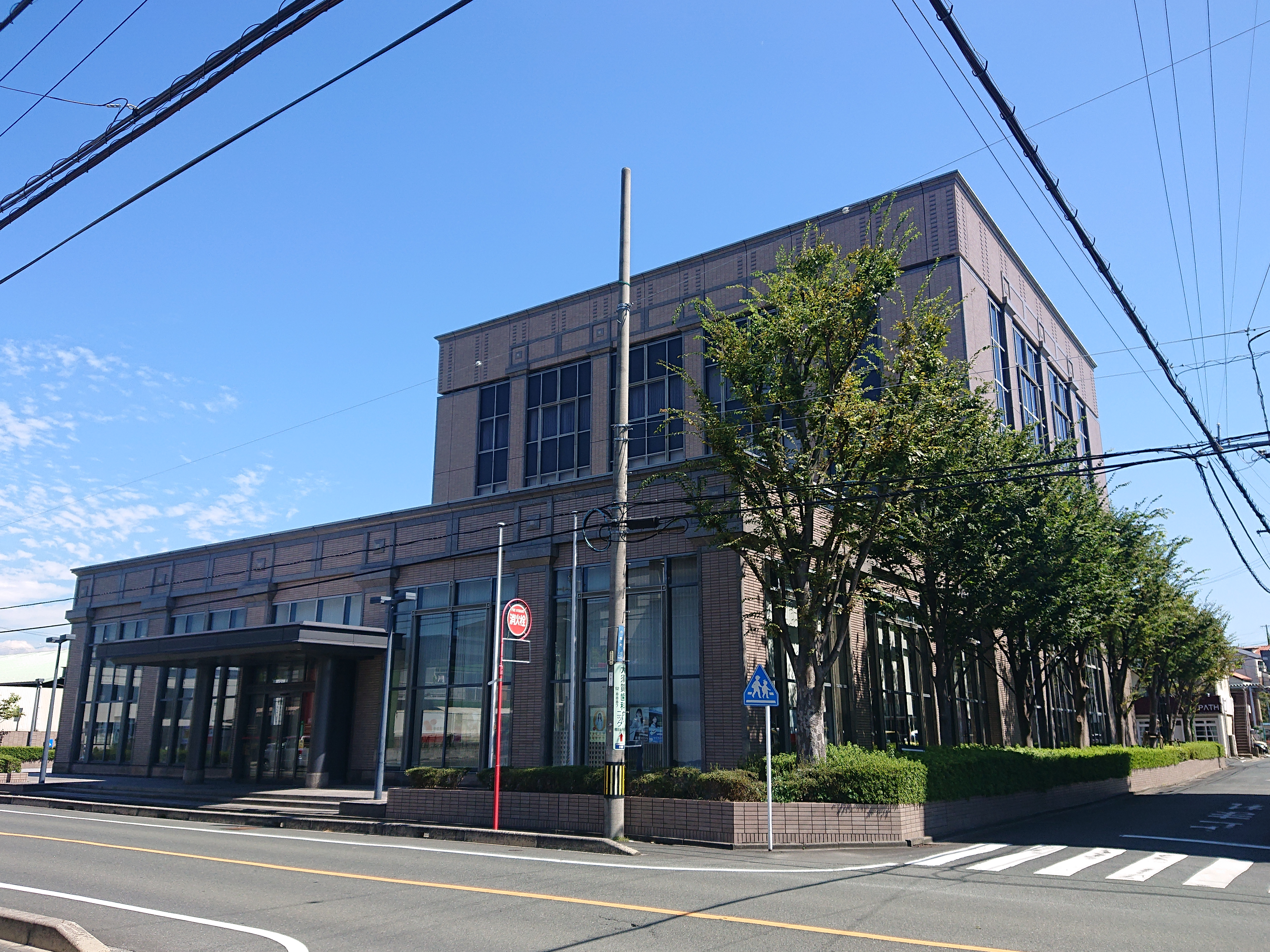 Toyohashi Shinkin Bank headquarters, at 579 Konawate-chō, Toyohashi, Aichi, Japan